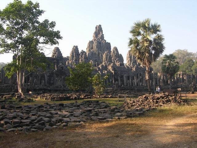 Bayon (in Angkor)